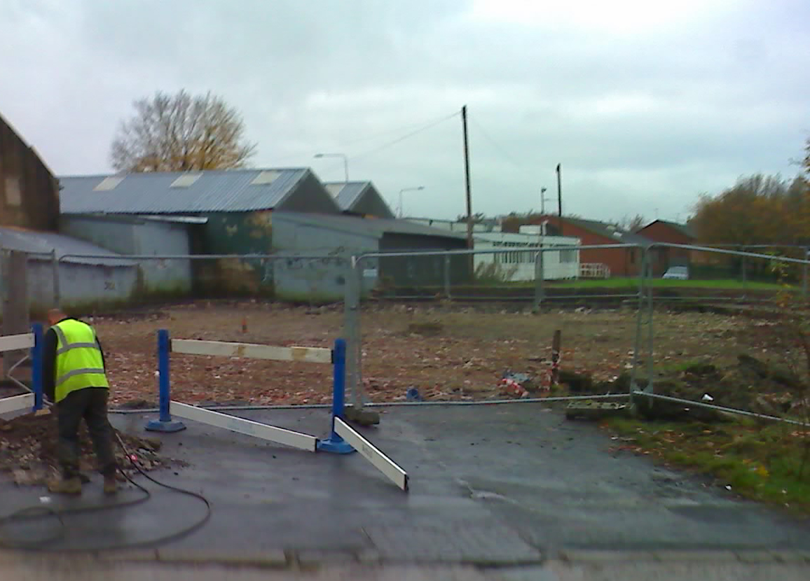 What was Oswaldtwistle Firestation - soon to be turned into a Tesco